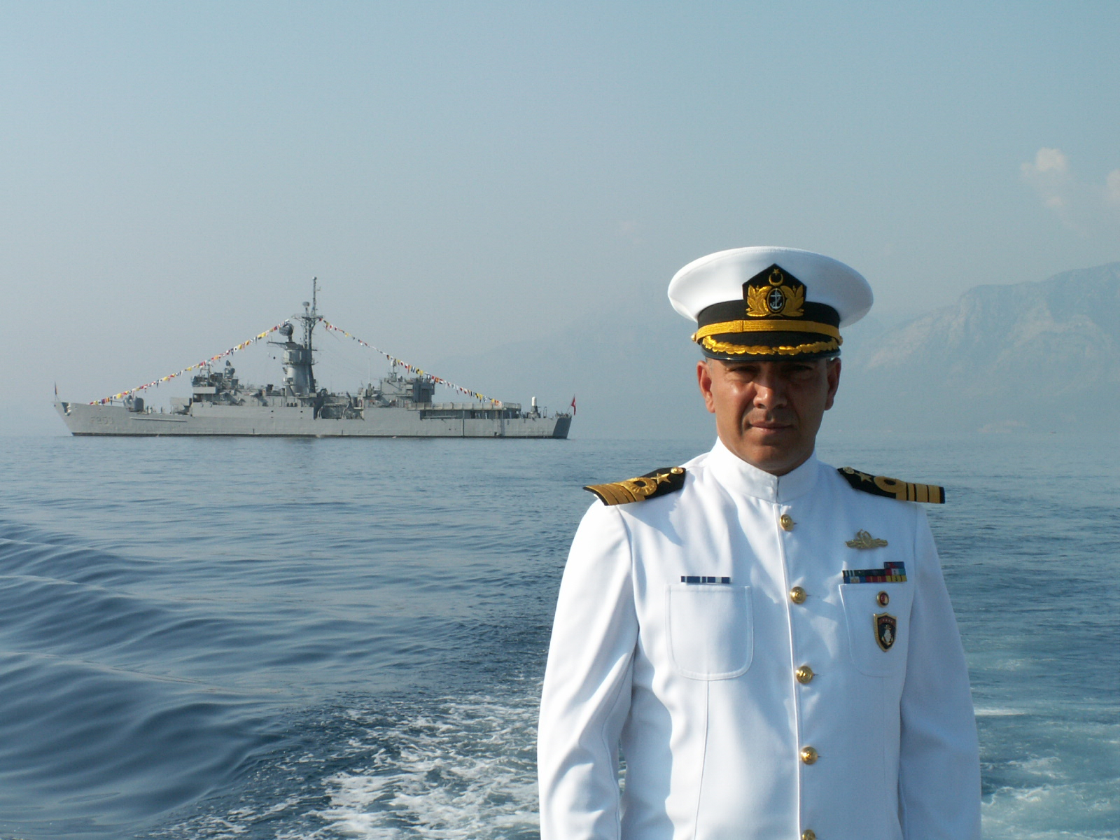 Admiral Mustafa Zeki Ugurlu when he was commanding officer of Thomas C Heart (TCG ZAFER)